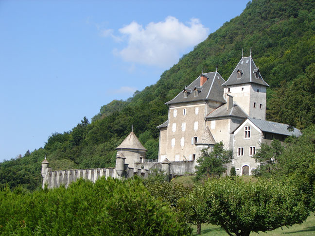 Castle of Beauregard, formerly belonging to the La Fléchère family, in Saint-Jeoire (Haute-Savoie, France)